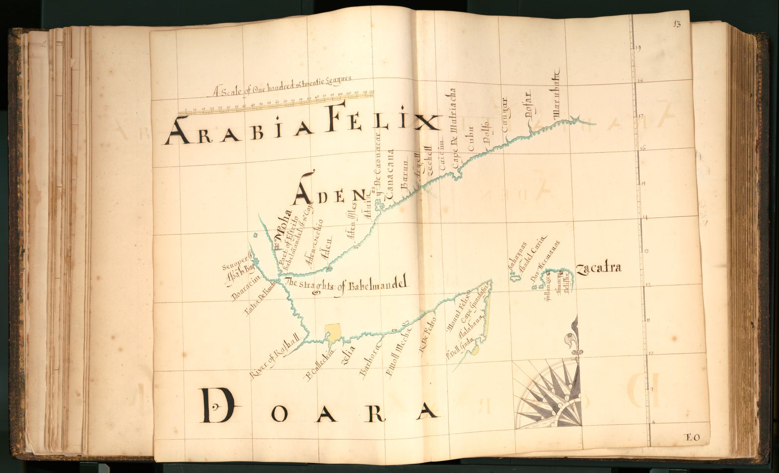 Gulf of Aden, Southern coast of Yemen, Red Sea, and Northern coast of Somalia with P. Dell Gada being the just south of the NE coastal corner of Somalia. Magadoxa would be south of that point of P.Dell Gada